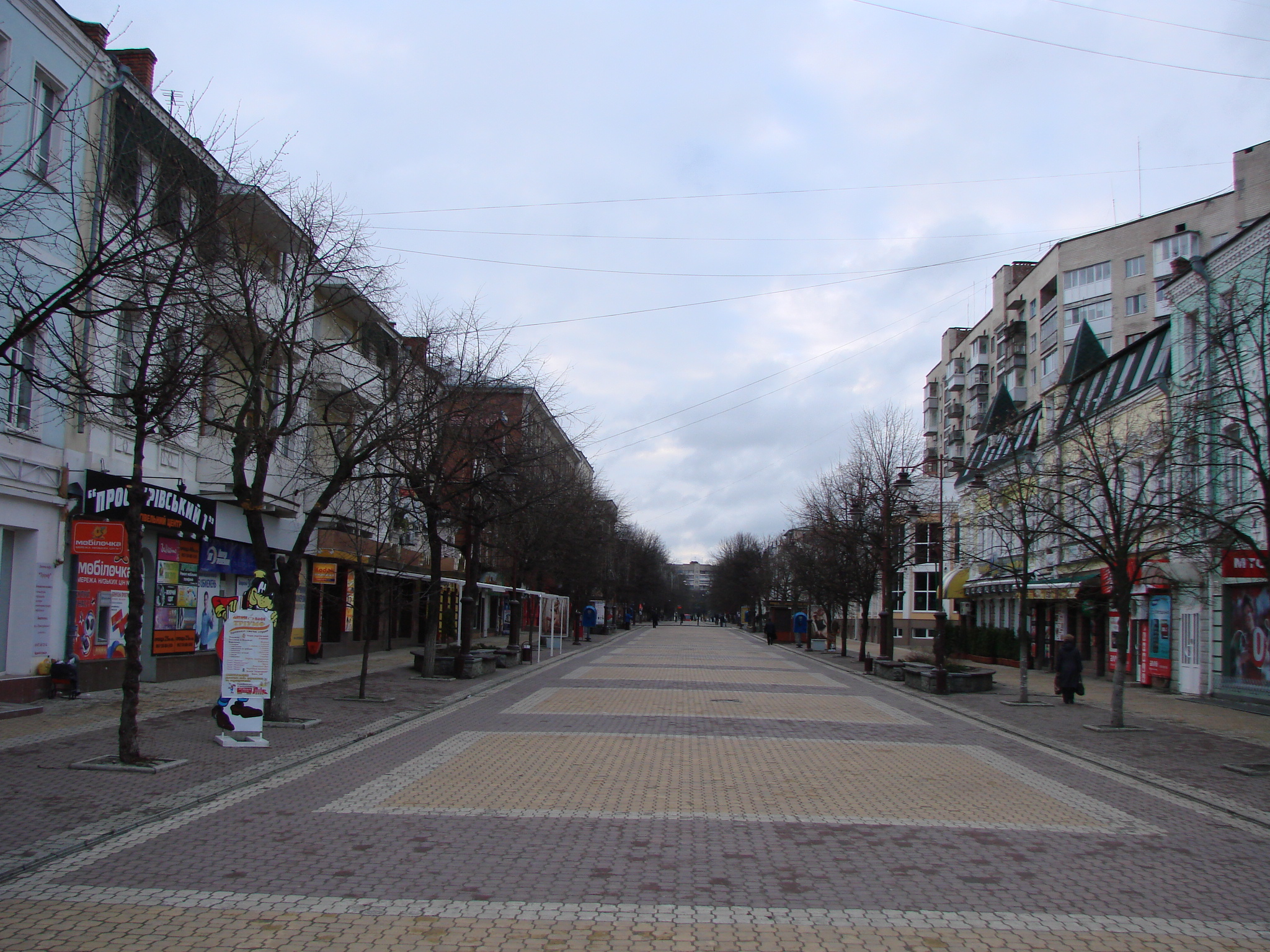 Proskurivska street in Khmelnytsky